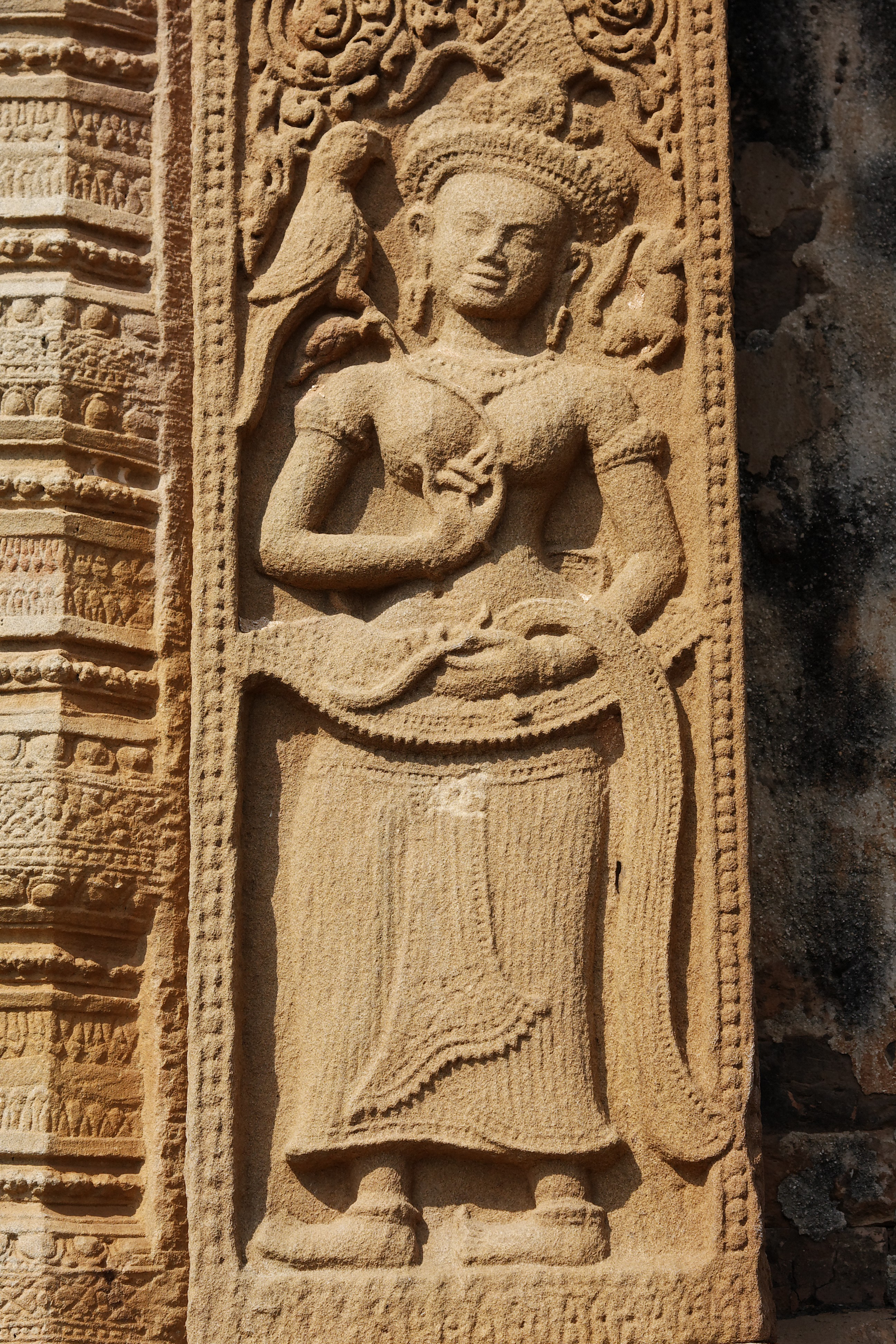 Prasat Sikhoraphum, Thailand